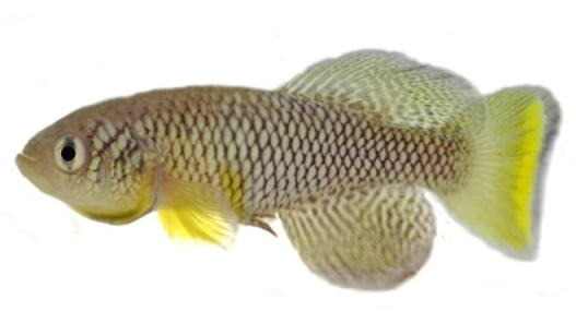 Male Nothobranchius furzeri GRZ, a species of killifish in the order Cyprinidontiformes, originating from Gonarezhou National Park